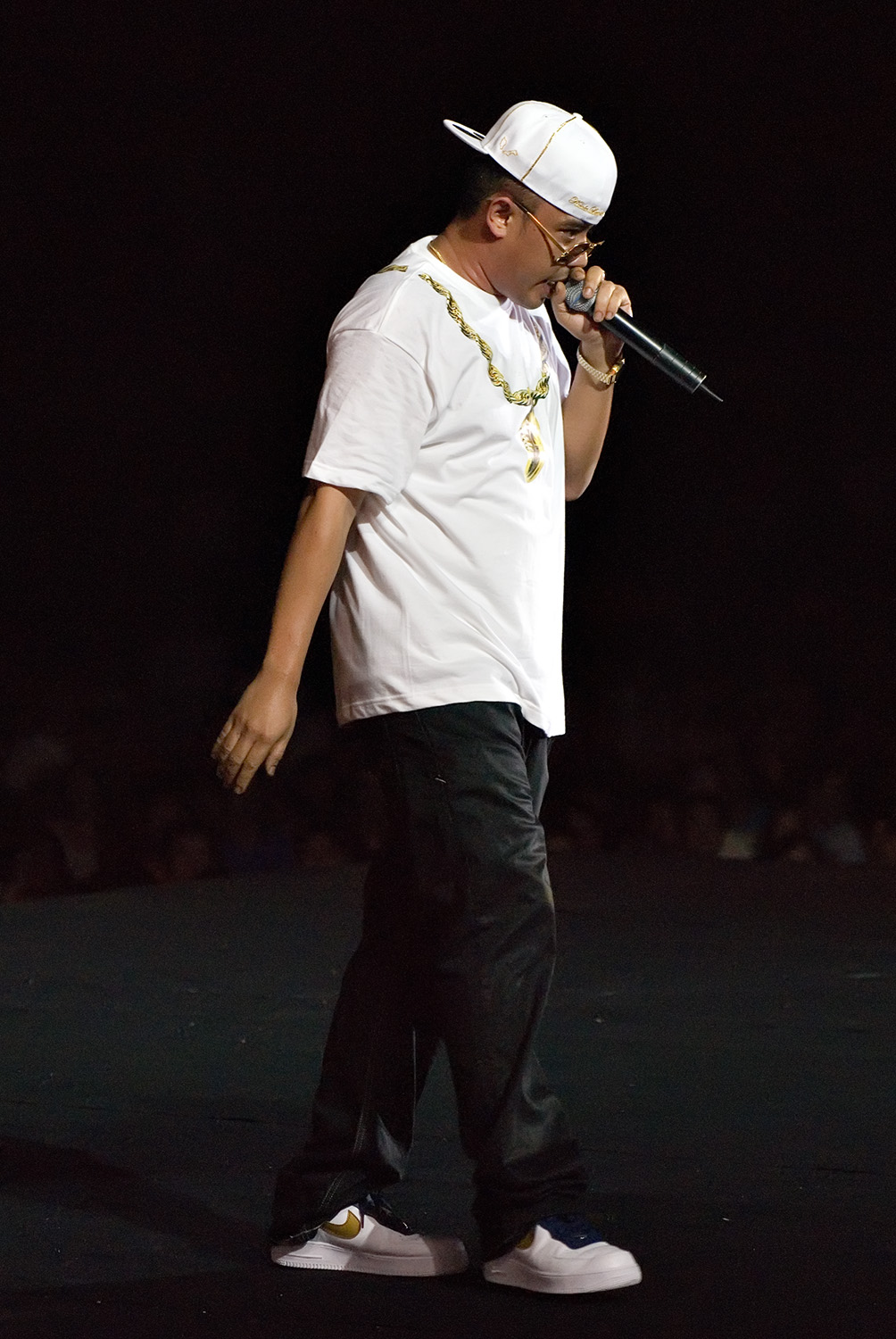 Joe Flizzow performing at Live and Loud KL 2007.